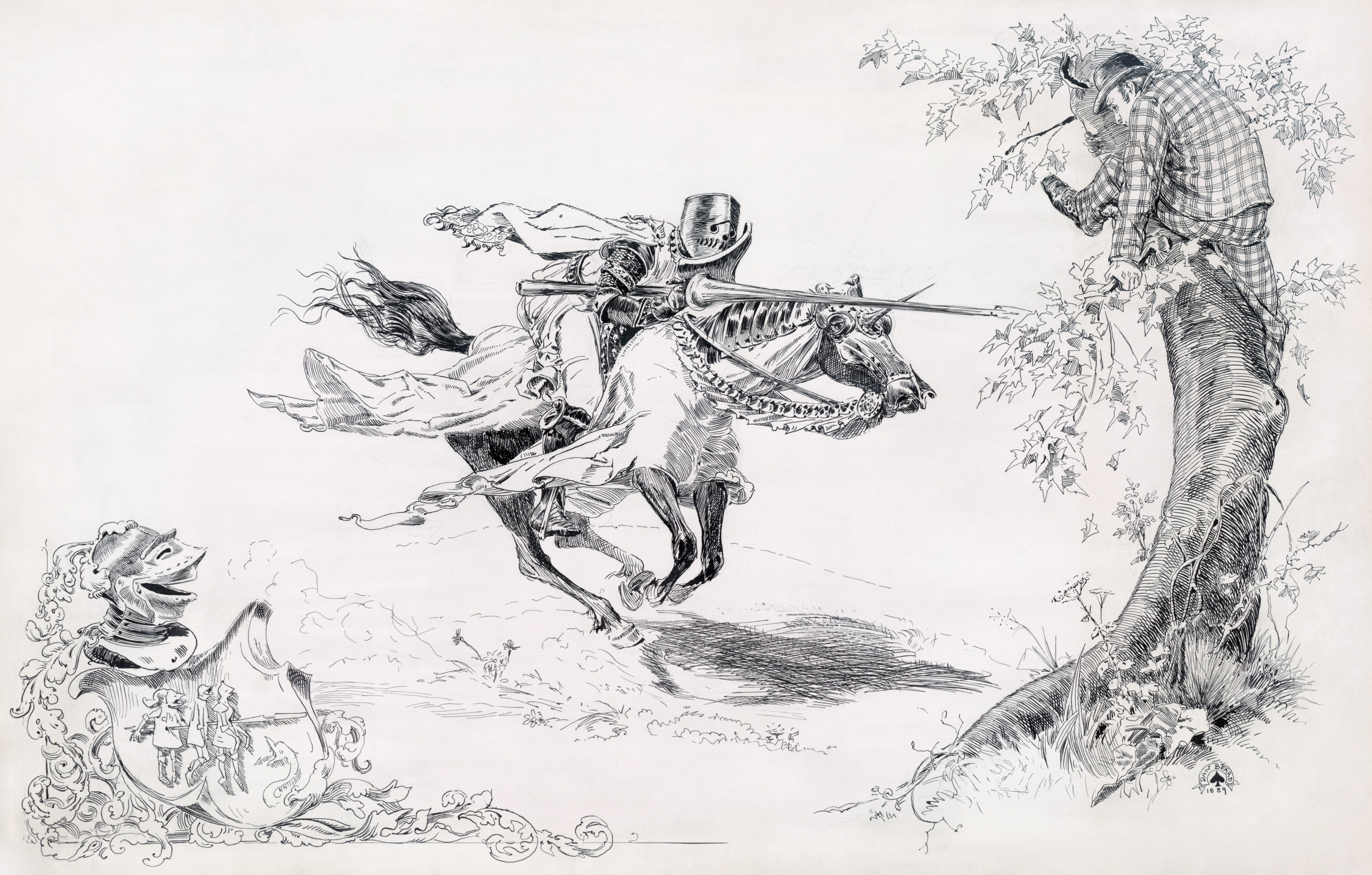 "Knight in armor tilting at man in modern dress in tree onto which a man in modern dress has climbed for refuge", "Published as frontispiece in: A Connecticut Yankee in King Arthur's Court / Samuel Clemens. New York : Charles L. Webster & Co., 1889. ", "1 drawing : pen and ink over graphite underdrawing ; sheet 36 x 57.1 cm."